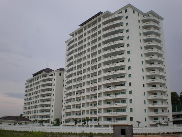 Imperial Suites Bintulu at Tanjong Batu, which is beside the beach of Bintulu